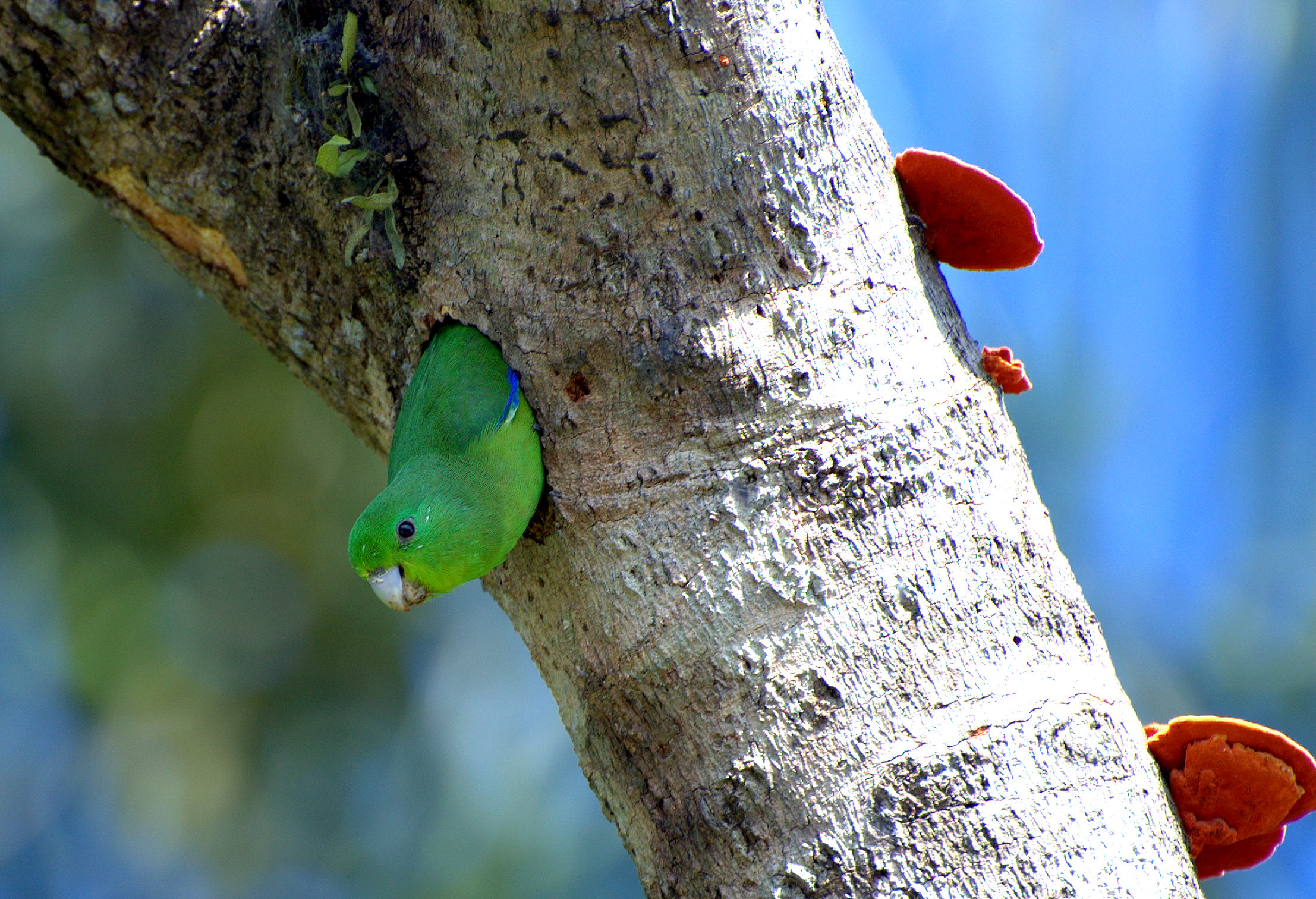 A male Blue-winged Parrotlet (Forpus xanthopterygius) looking out from a nest in the Vale do Ribeira, Brazil.